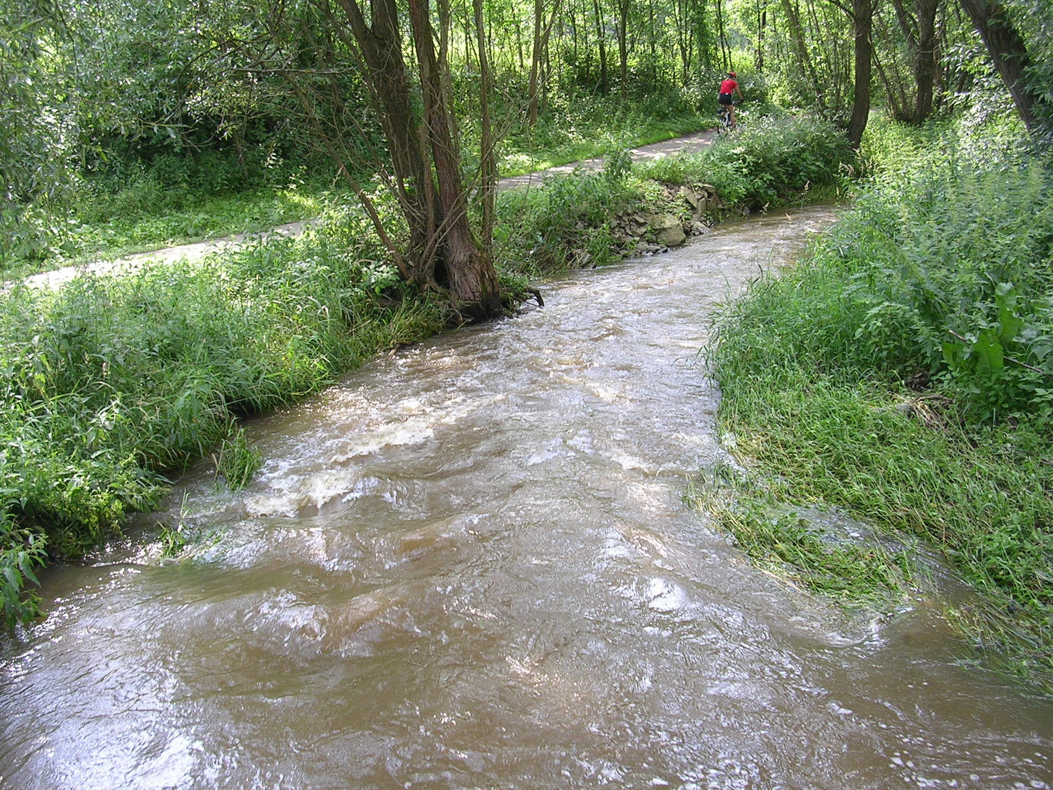 Svatý Jan, Příbram District, Central Bohemian Region, the Czech Republic. - Google Maps - Google Earth